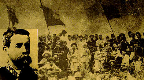 Picture of Colonel Gomes carneiro and the "martyrs" of Lapa. Miltary that died during the defence of the city Lapa (State of Paraná, Brazil)